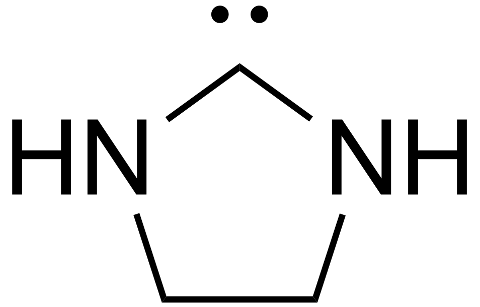 Chemical structure of dihydroimidazol-2-ylidene